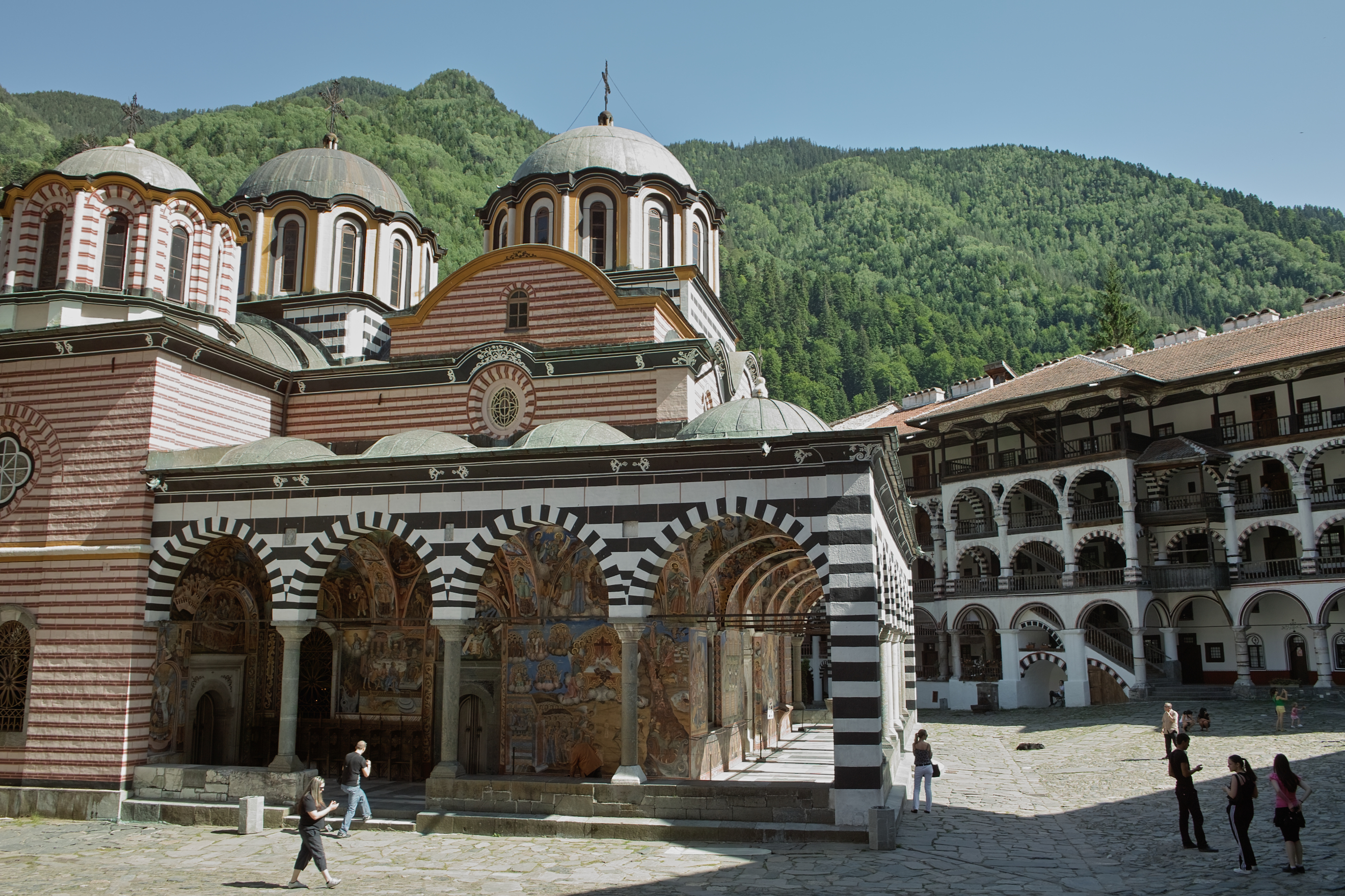 Church of the Monastry Rila in Bulgaria